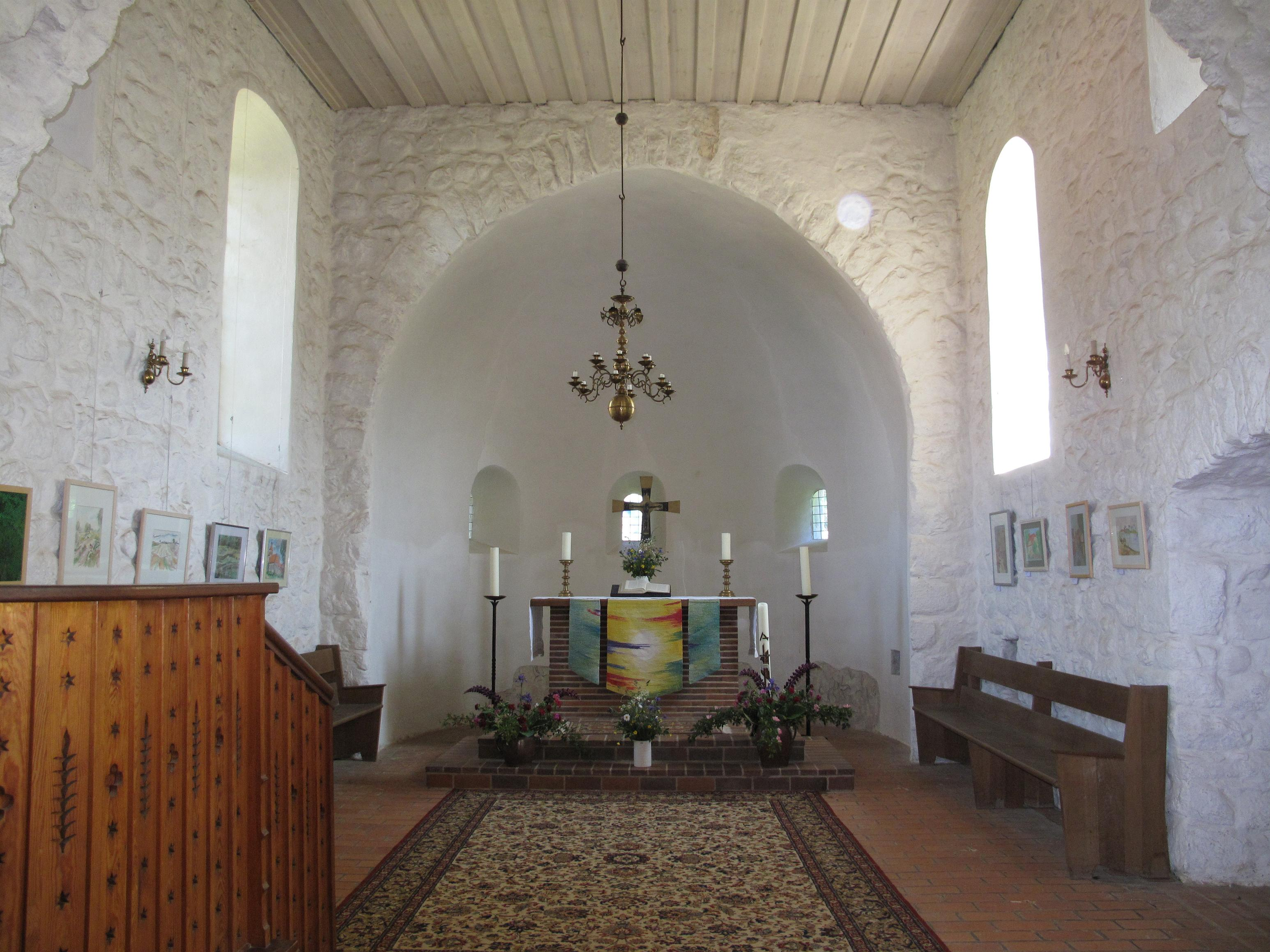 Chancel of the Village church Wildenbruch. Listed Fieldstone church, built in the 13th century. The timber framed addition on the center of the west tower was built in 1737 and after modifications in the meantime1992 reconstructed according to the plans from 1737. Contrary to many different depictions it is no Fortified church (german: Wehrkirche). Wildenbruch is a part of Michendorf in the district Potsdam-Mittelmark, state Brandenburg, Germany.